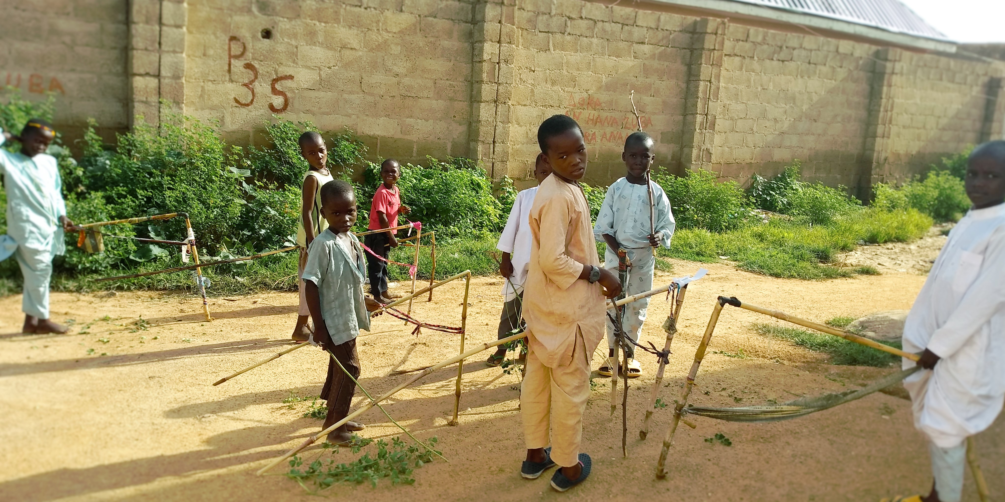 This is an image with the theme "Play" from: Nigeria